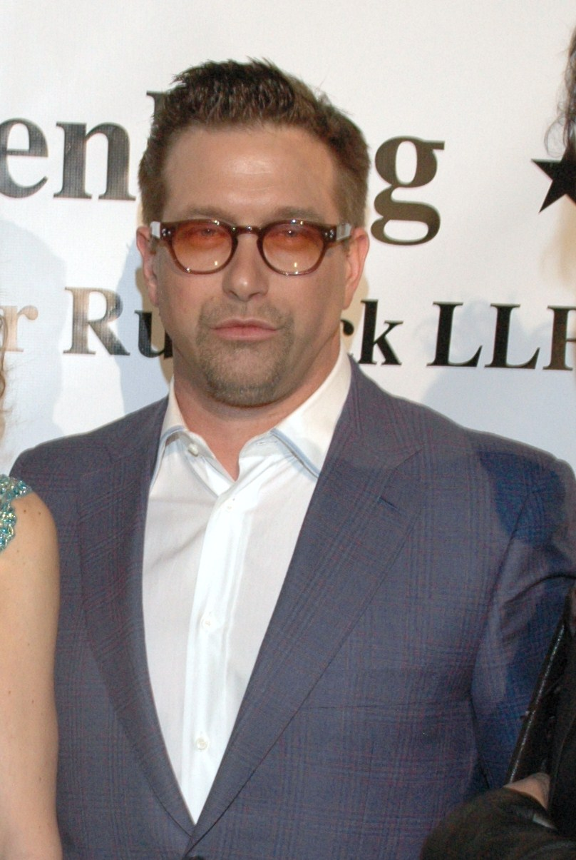 Stephen Baldwin on the Children Uniting Nations Academy Award Viewing Party red carpet, at the Beverly Hilton, Beverly Hills, Los Angeles, California. Held preceding the start of the Oscar telecast.